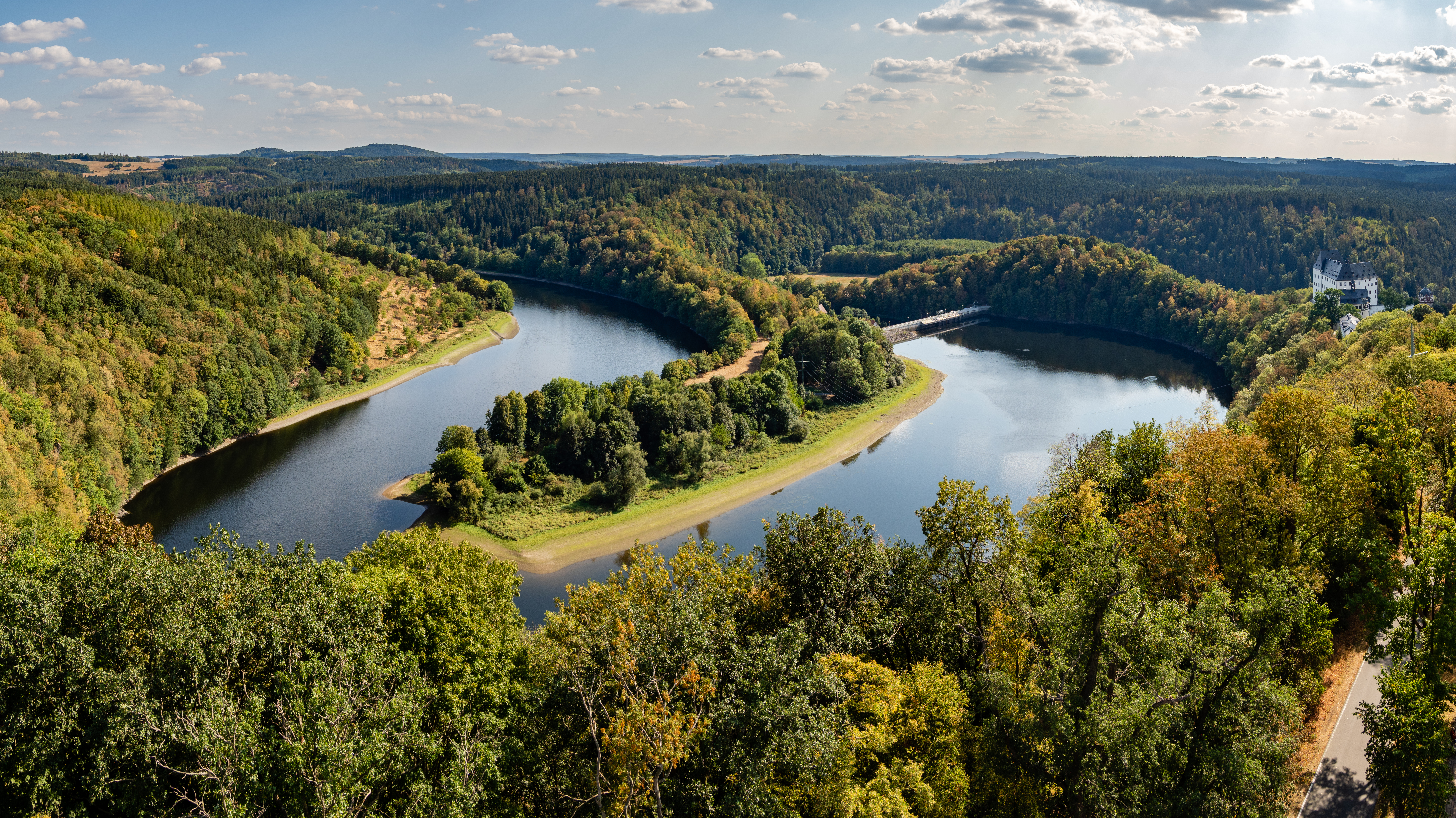 The Burgkhammer dam seen from the Saale tower